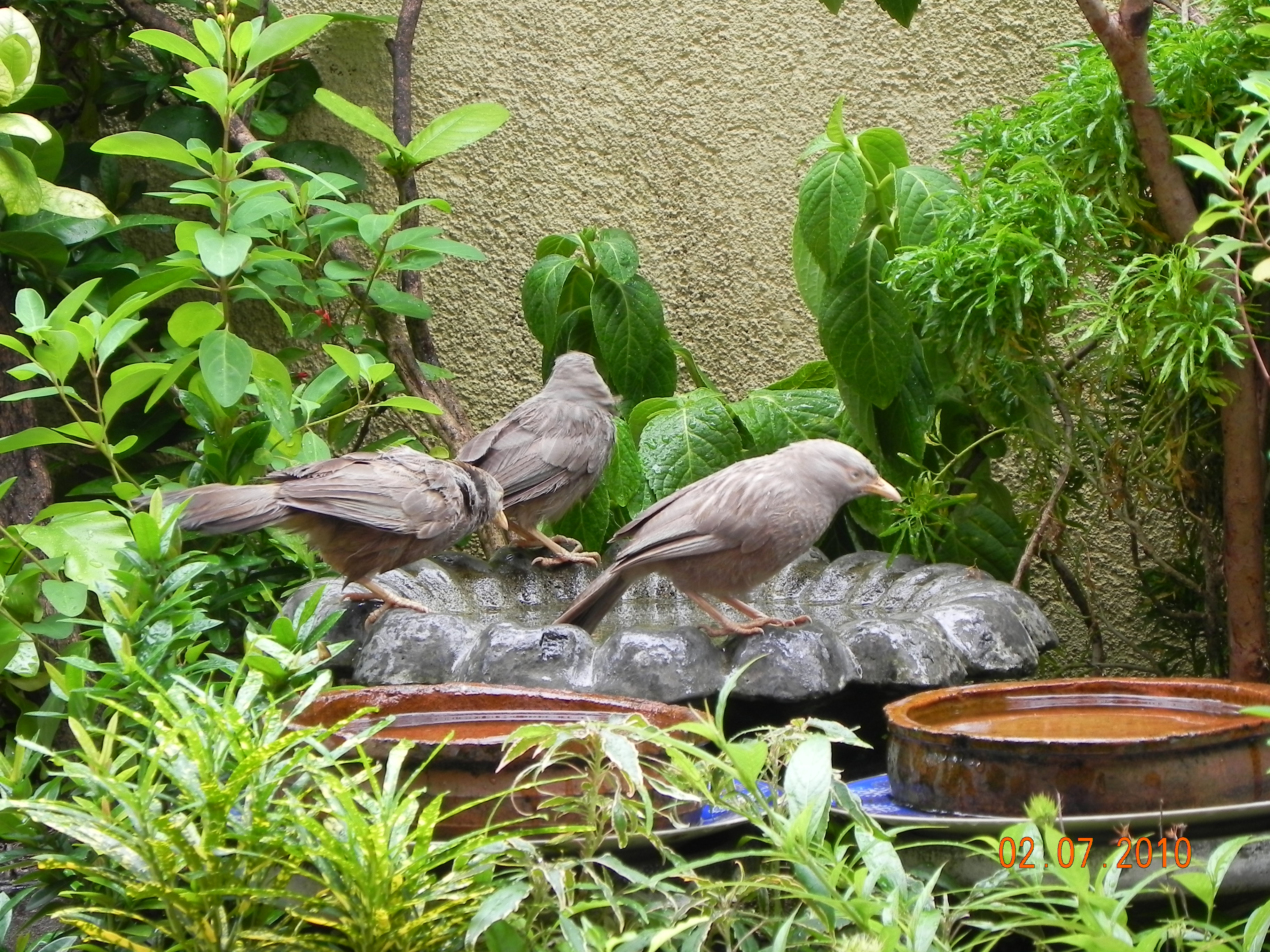 A group of yellow-billed Babblers bathe in a bird bath (c) Ashraaq Wahab, 2010 For personal use only